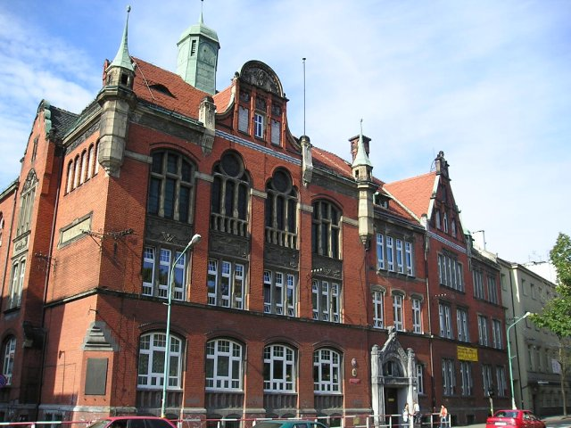 The building of the Maria Skłodowska-Curie Secondary School No 4 in Chorzów, Poland.